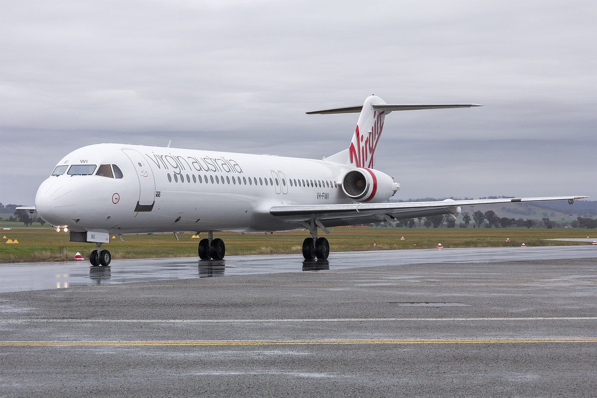 Virgin Australia Regional Airlines (VH-FWI) Fokker 100, with newly applied VA livery, taxiing at Wagga Wagga Airport.